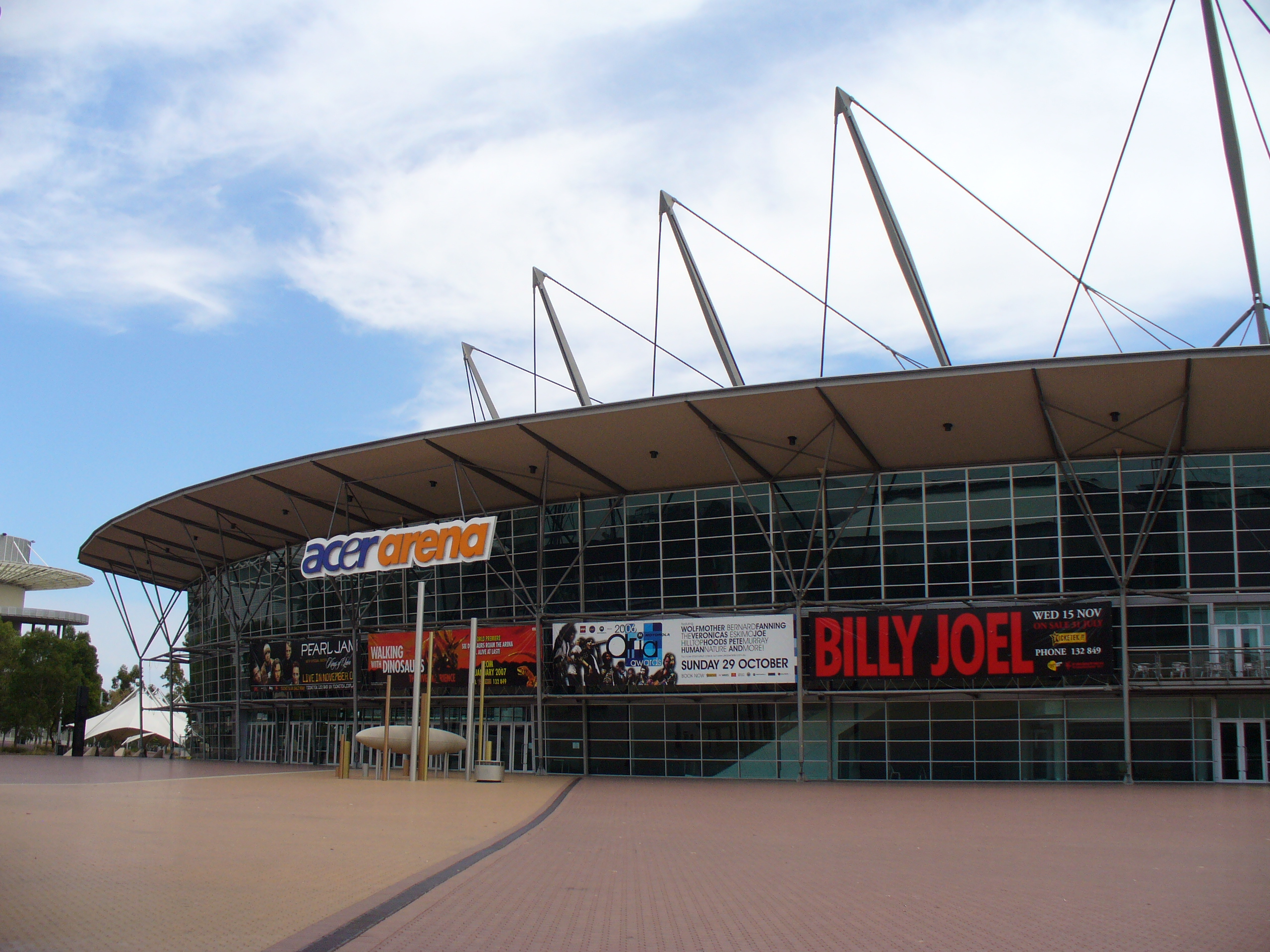 Sydney Superdome (otherwise known as Acer Arena), Sydney